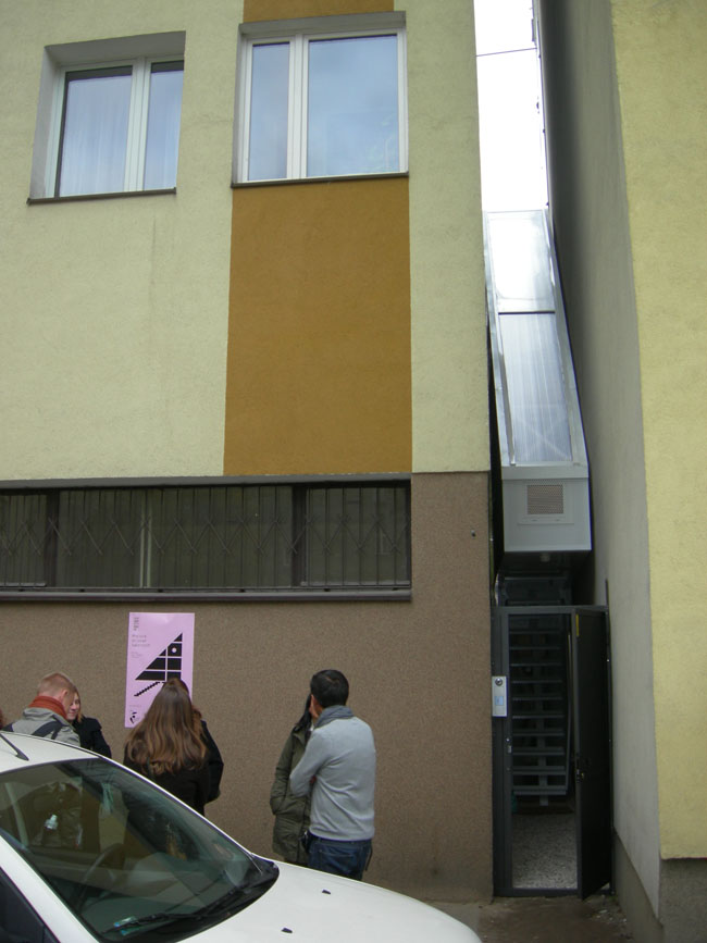 The Keret House artistic installation has been designed by polish architect Jakub Szczęsny from an ida of the israelian born writer and cineast Etgar Keret.